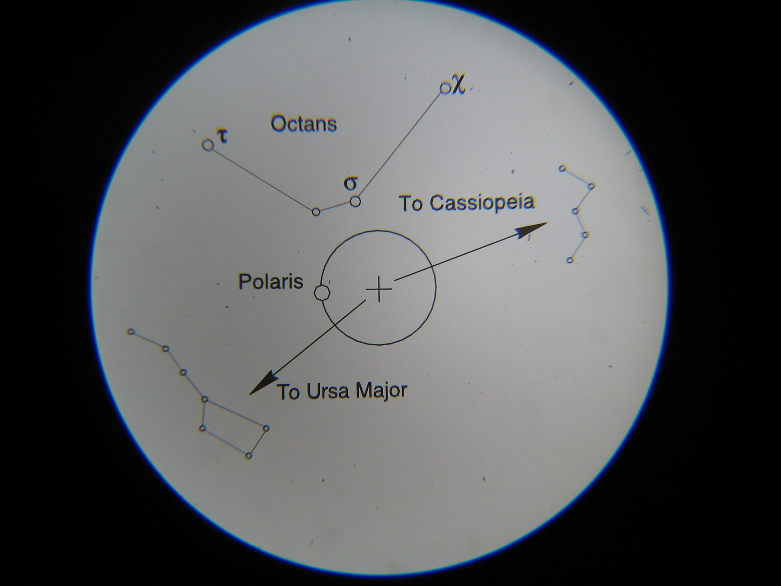 View through a polar finder scope